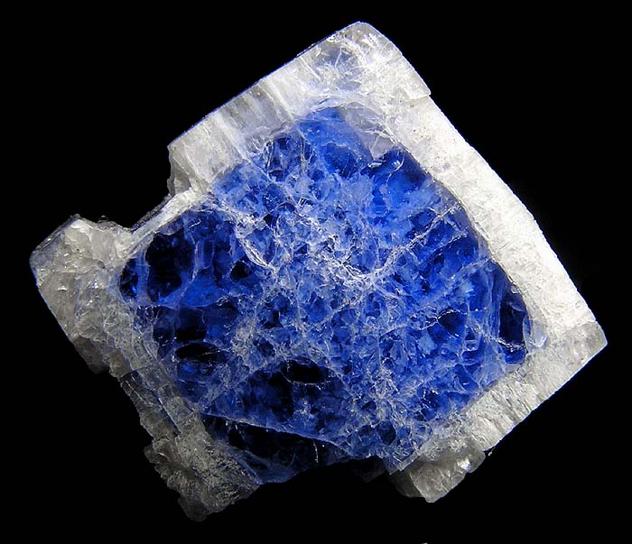 Carletonite Locality: Poudrette quarry (Demix quarry; Uni-Mix quarry; Desourdy quarry), Mont Saint-Hilaire, Rouville RCM, Montérégie, Québec, Canada (Locality at ) A very large example for this form of carletonite, which, due to its size has also acquired an opacity not common to the others here. It is a bit rough-looking and is missing one corner at the bottom. The demarcation between blue and white is so sharp and distinct. 1.6 x 1.6 x 0.9 cm . This Photo was Photo of the Day - 3rd Oct 2006